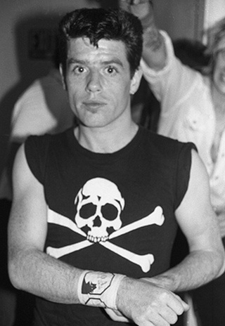 Picture of Jim Reilly James G. "Jim" Reilly (born 1957) is the second drummer for the Northern Ireland punk band Stiff Little Fingers, with whom he played from 1979 to 1981.[1] He played on the LPs Nobody's Heroes, Go for It[1] and Hanx. In 1981 he moved to the United States, where he played in two bands, Red Rockers, followed by The Raindogs.[1] In the late '80s he lived in Boston and worked as a band manager. He has since moved back to Northern Ireland. For a time in 2004, he played in SLF tribute band Little Fingers, and is currently playing in Jim Reilly's Alternative Soldiers.